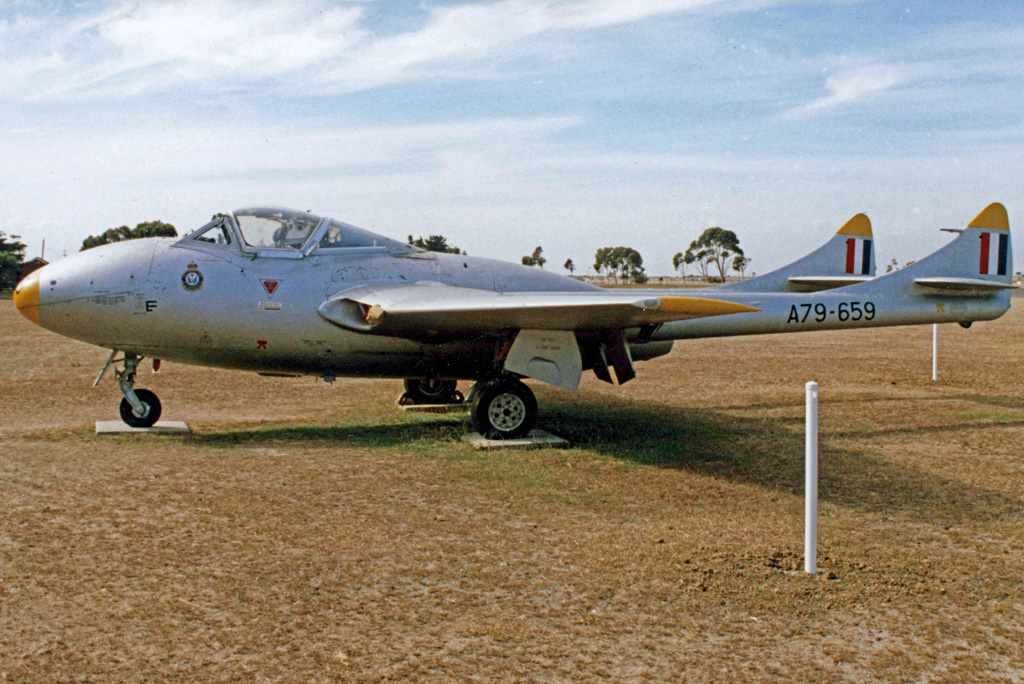 De Havilland DH.115 Vampire Trainer T.35 A79-659 built by DH in Australia